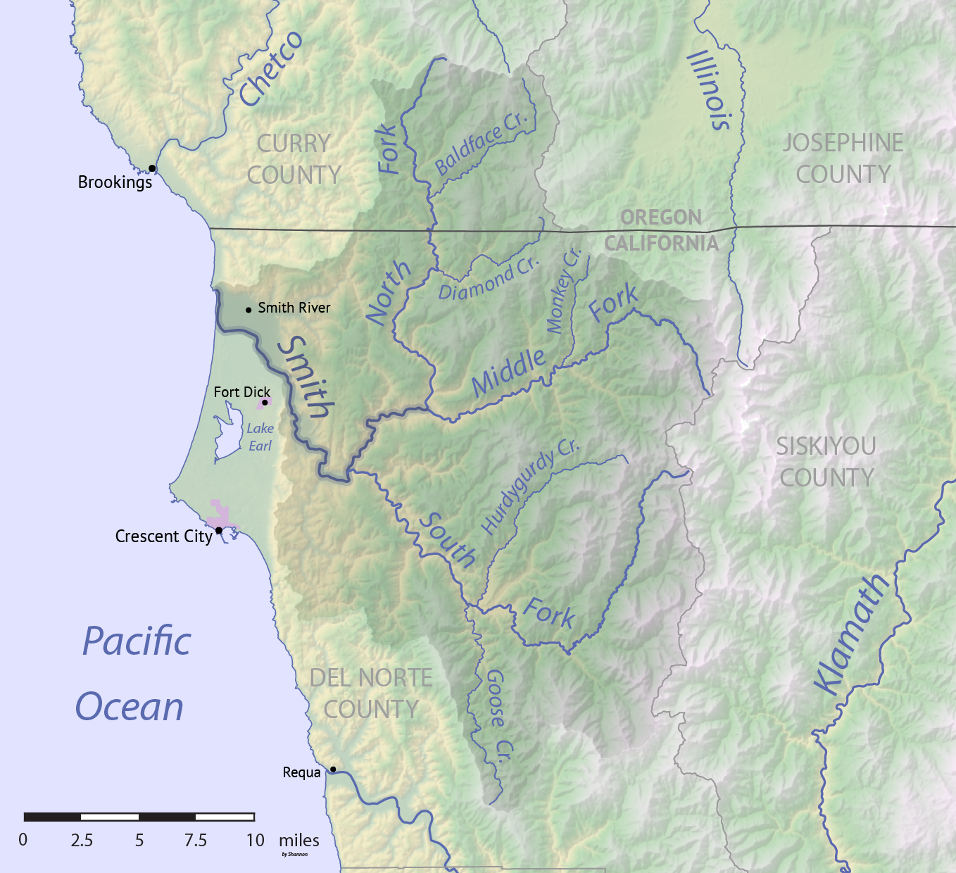 Map of the Smith River watershed in California and Oregon, United States. Made using USGS National Map data.